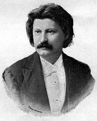 Czech pianist Karel Hoffmeister (1868-1952)